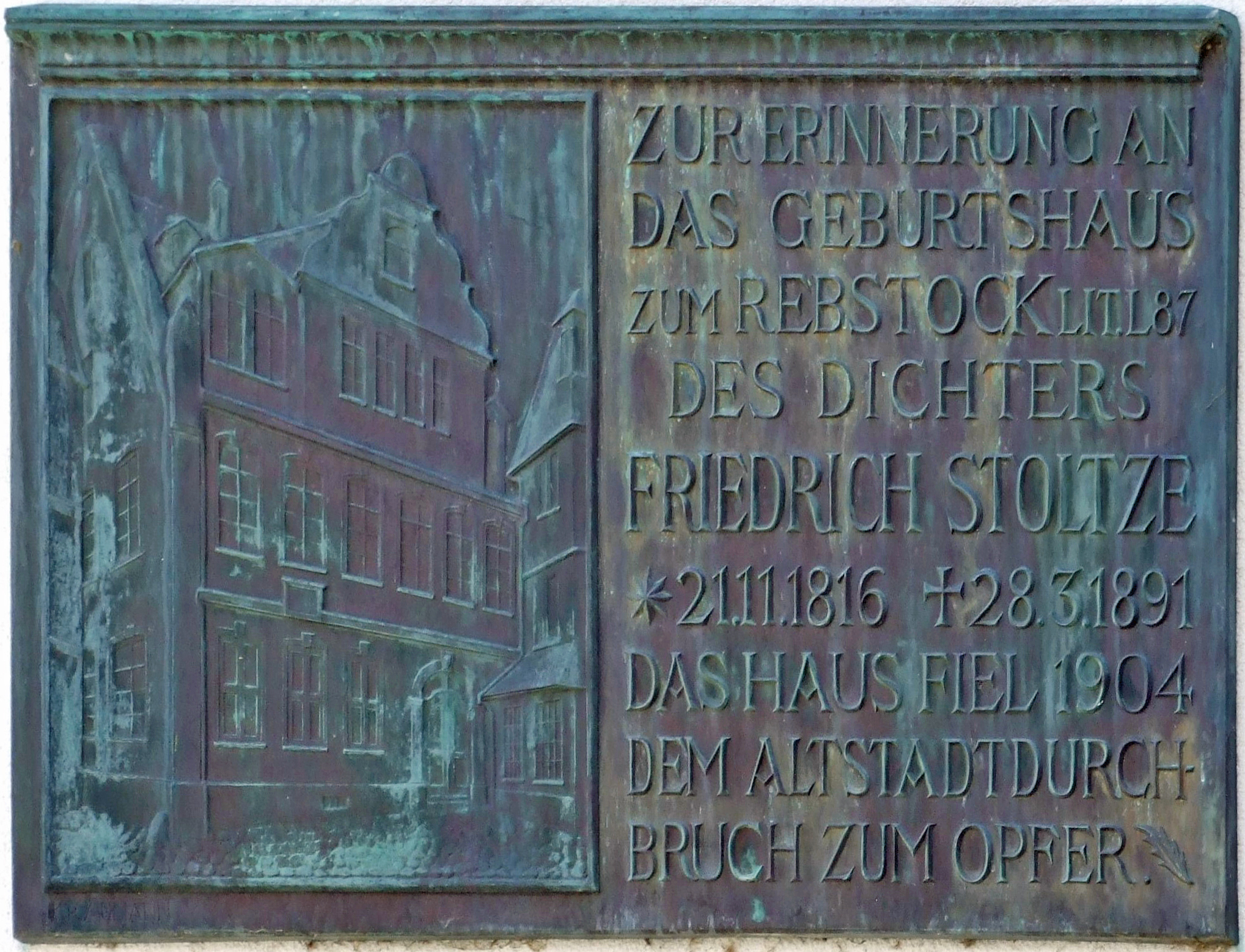 commemorative plaque, former family residence place of "Friedrich Stoltze", on a new house (diagonal opposite of "MMK") at the corner Braubachstrasse-Domstrasse in Frankfurt am Main-Altstadt